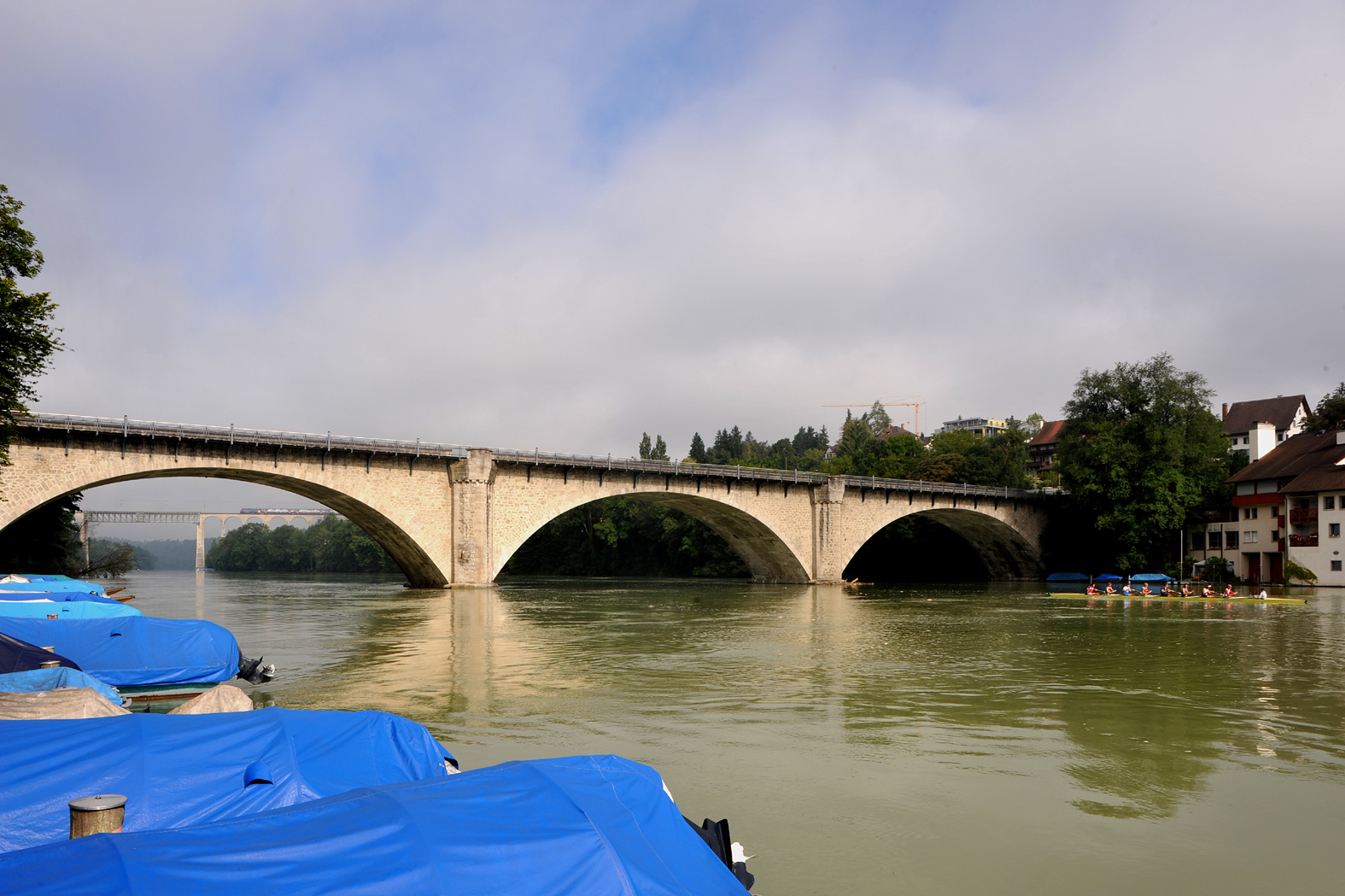 Road bridge over river Rhine in Eglisau; Zurich, Switzerland. In the background the railway bridge.